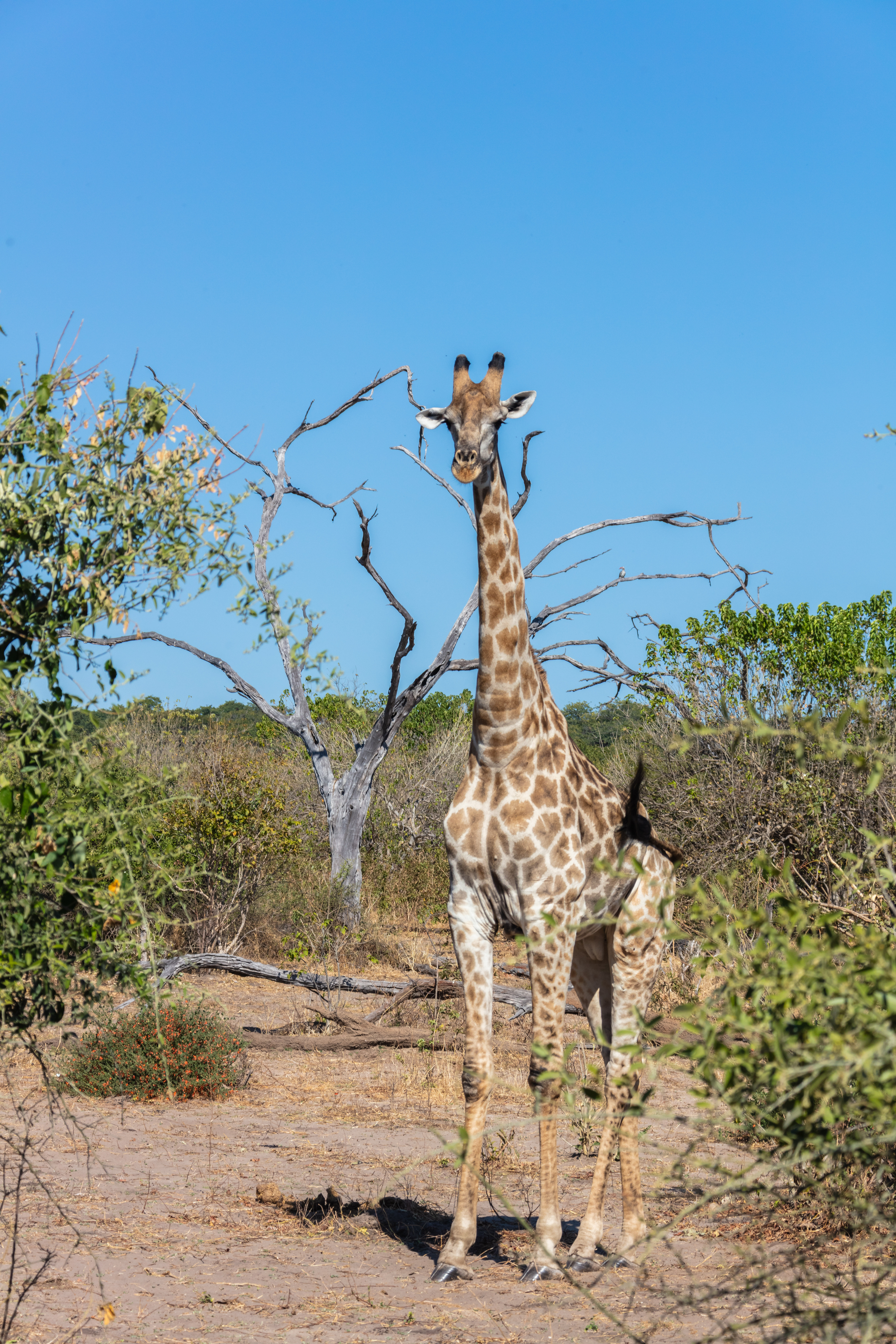 Northern giraffe (Giraffa camelopardalis), Chobe National Park, Botswana